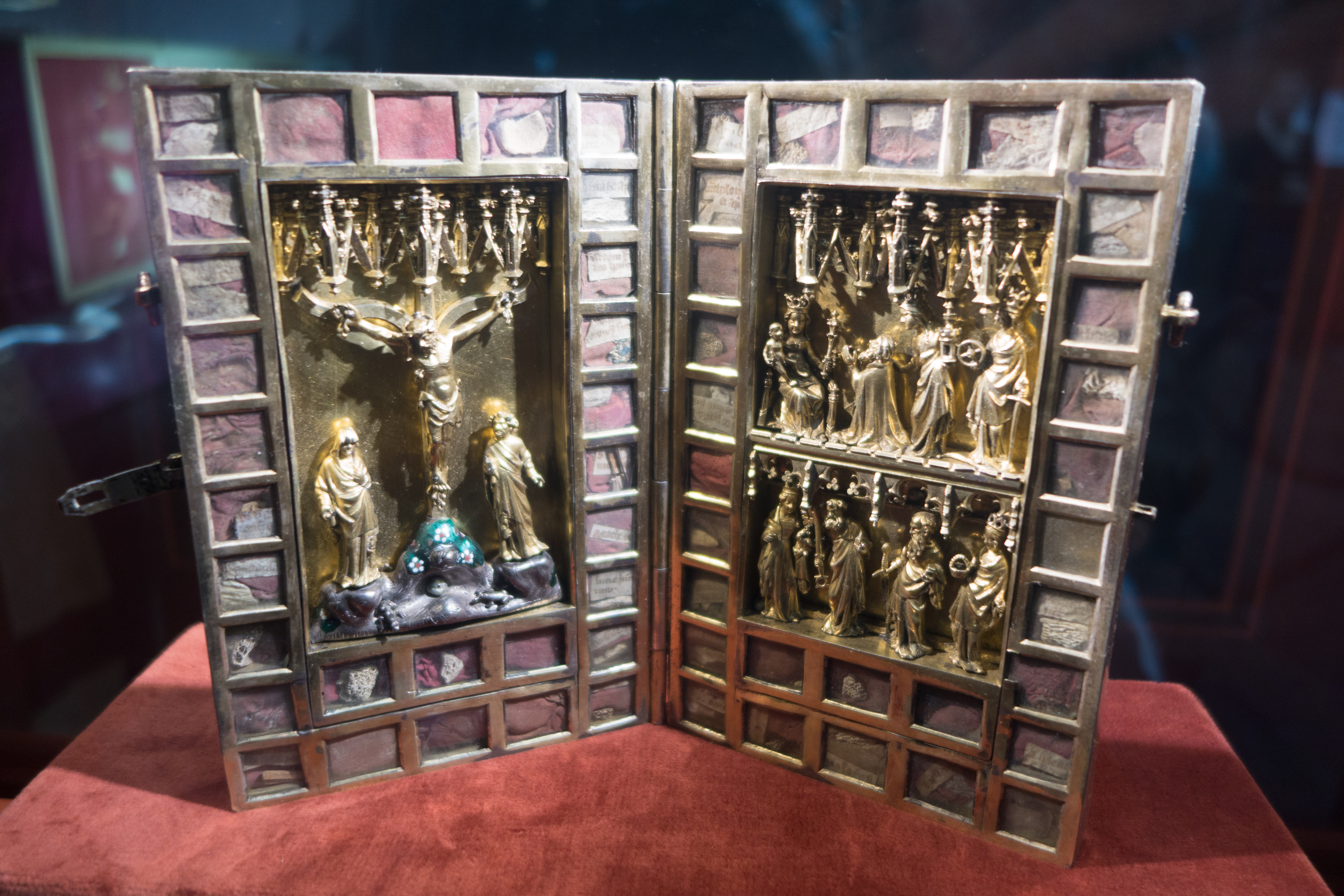 Poland 2015